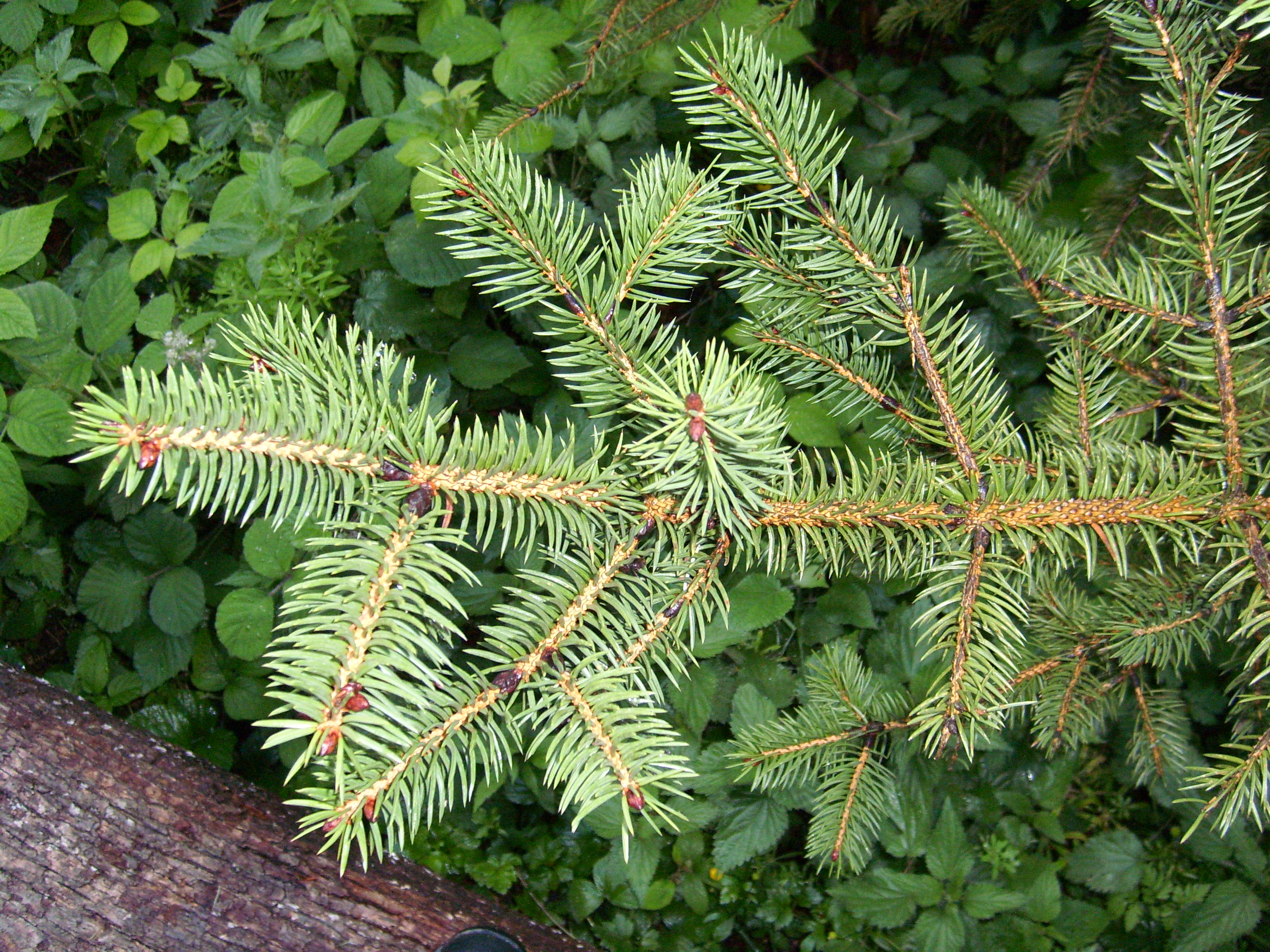 Foliage of Picea torano